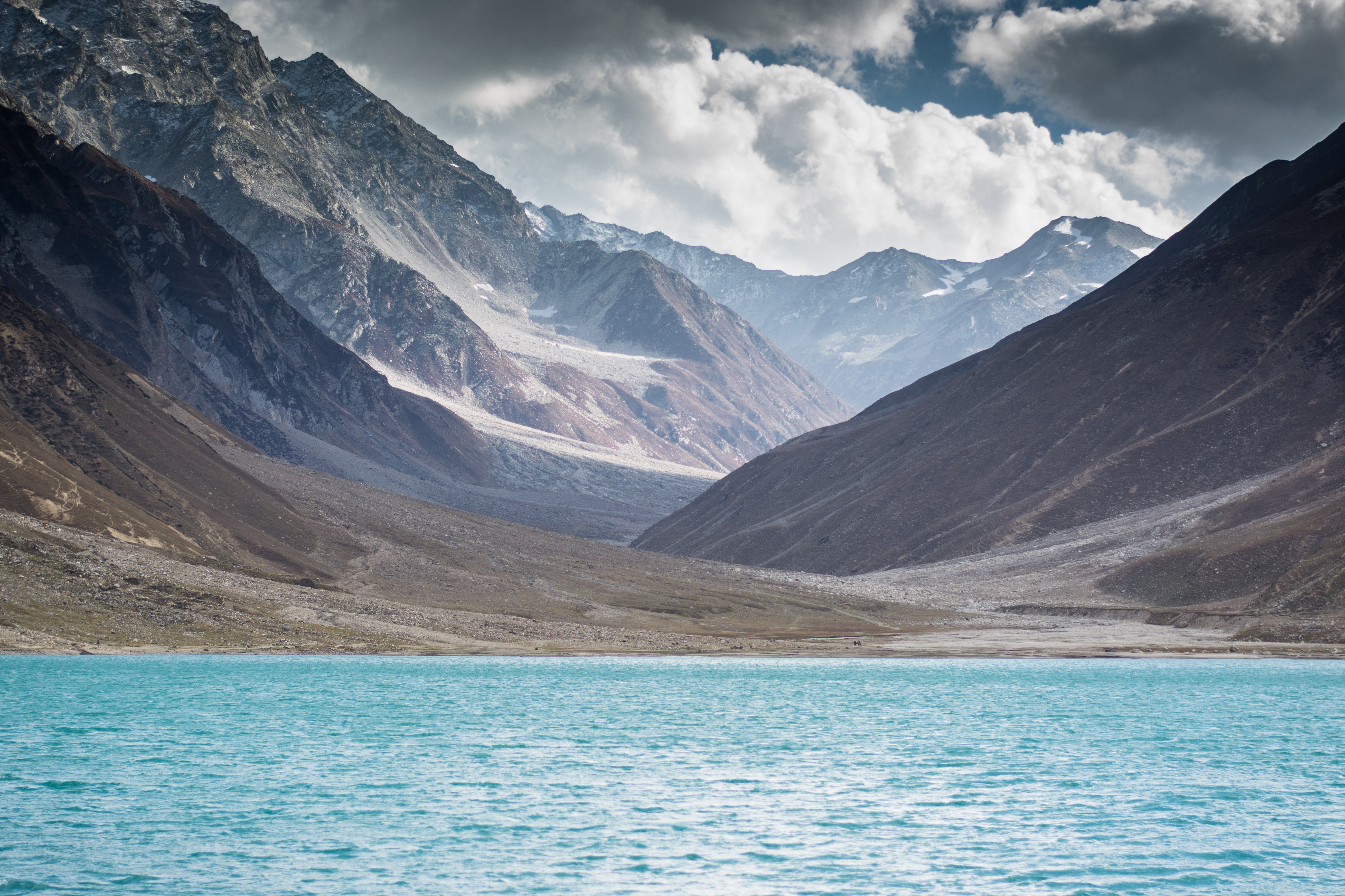 Lake Saif ul Malook is a beautiful lake in Naran Valley. A very good and easy to approach spot for the tourists